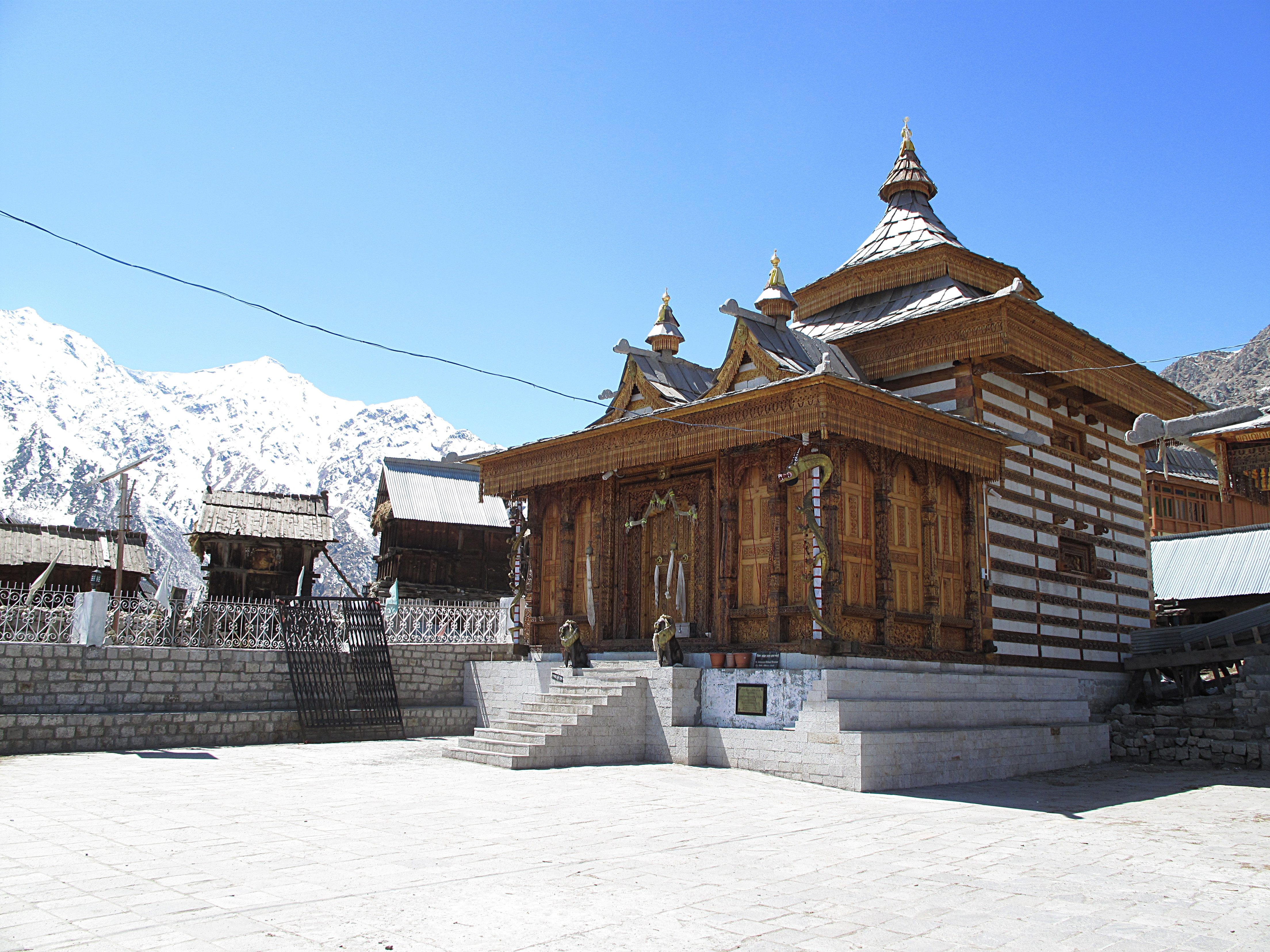 One of the three 500-year old wooden temples in Chitkul, village in Sangla Valley